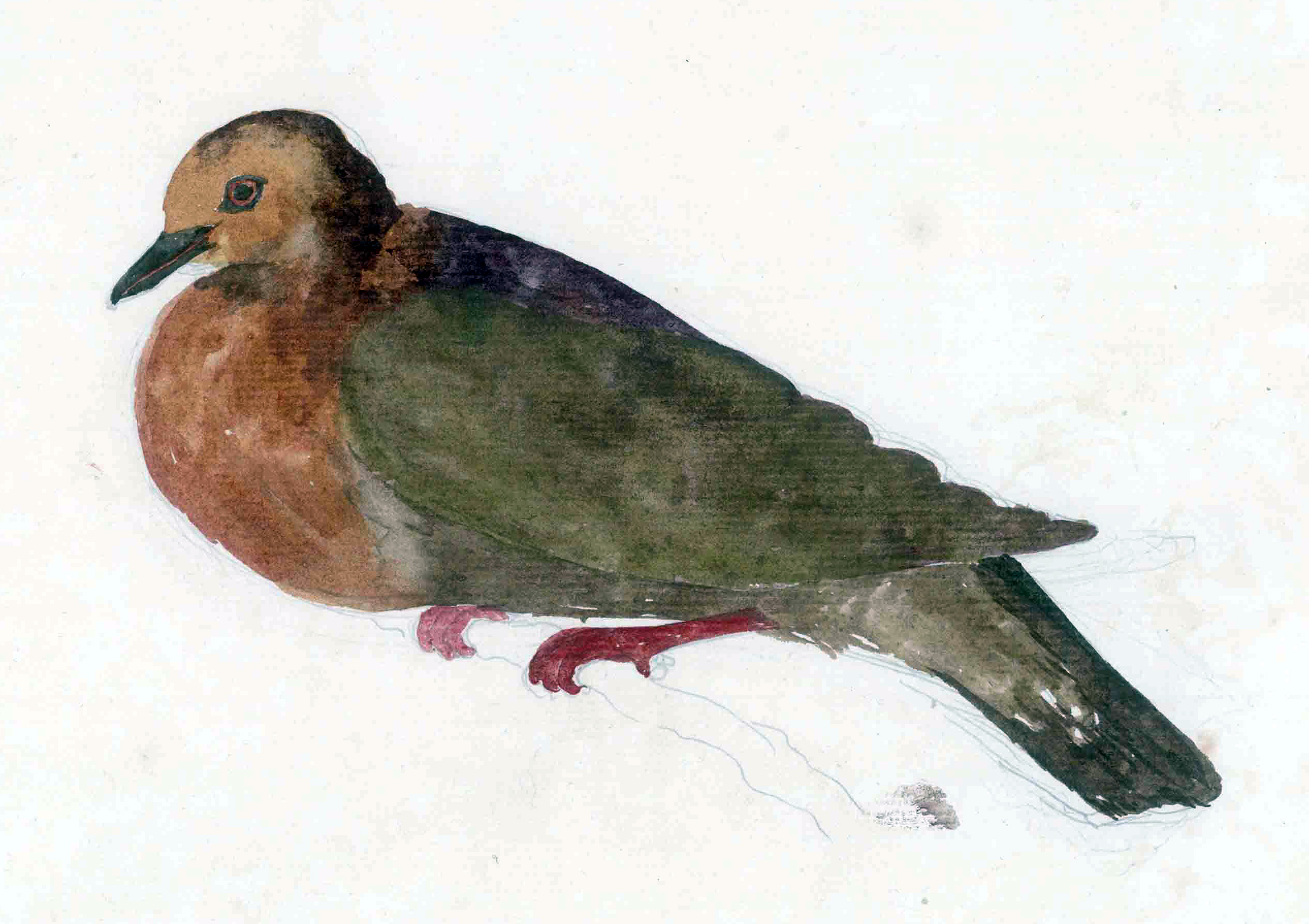 Tanna Ground Dove, pained by George Forster. In its margin is written: Tanna, female, 17th August 1774.